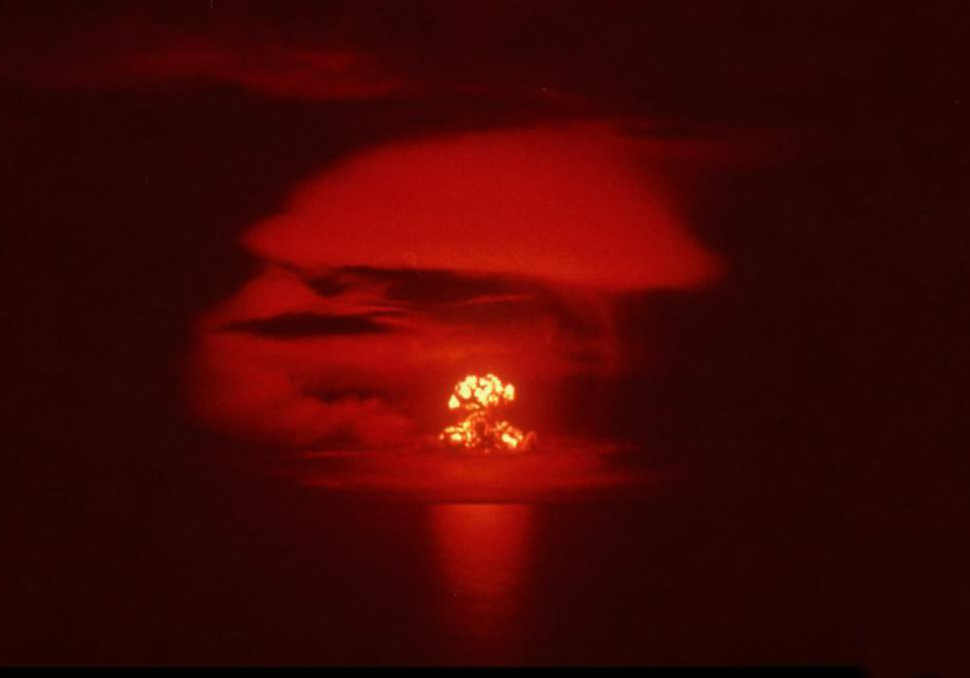 Operation Redwing - Blackfoot shot.